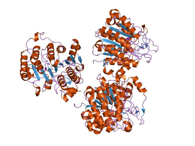 Cartoon representation of the molecular structure of protein registered with 3c0y code.